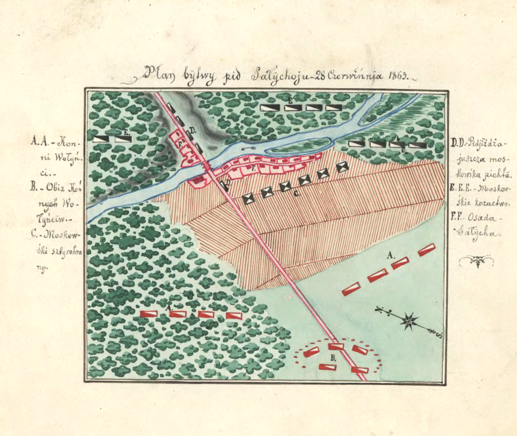 Battle of Salicha 1863 contemporary sketch